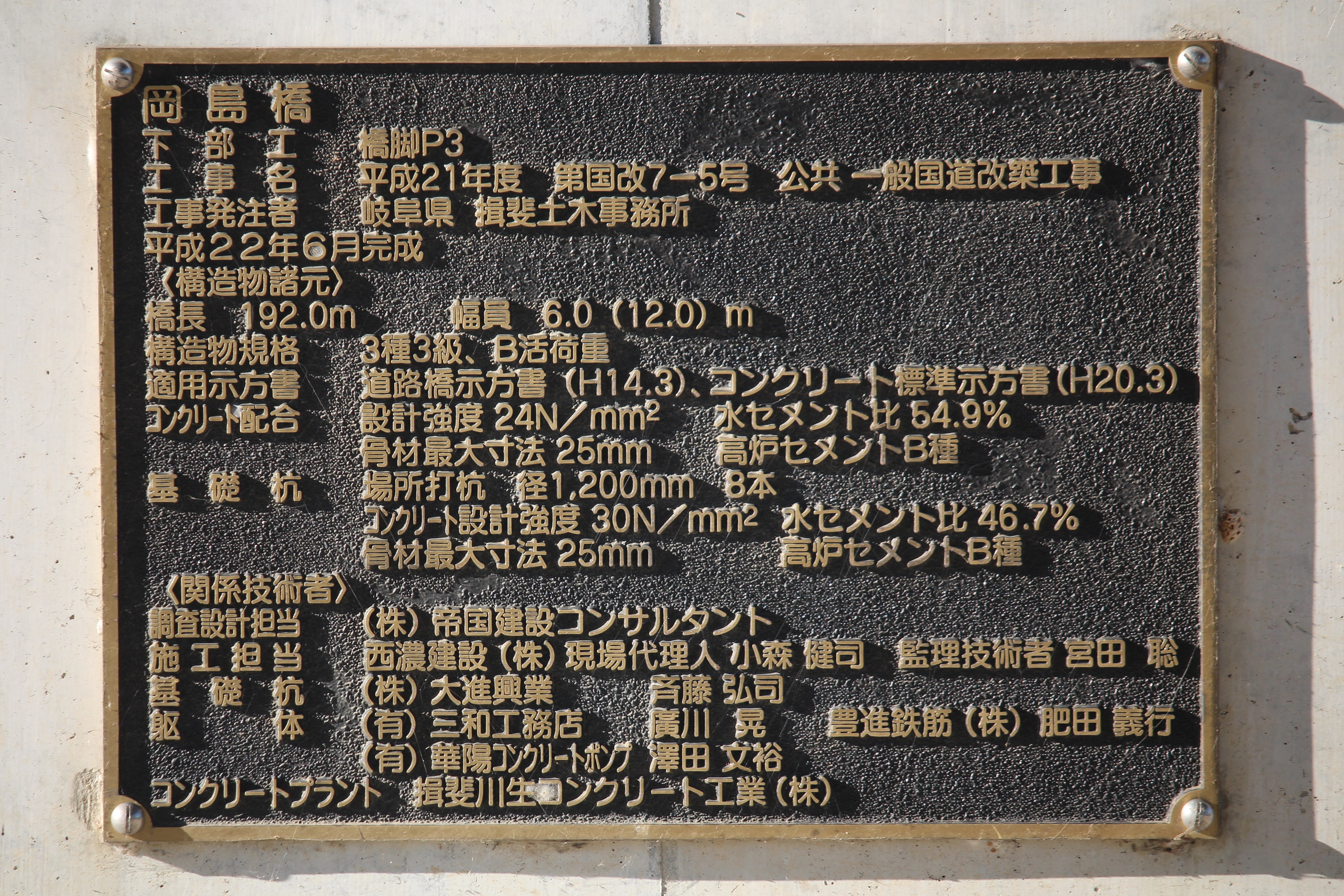 Plate of Okajima Bridge (Okajima-bashi) over Ibi River, in Ibigawa town, Gifu prefecture, Japan.